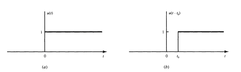 Figura 1. (a) Sinjali shkallë njësi ; (b) Sinjali shkallë njësi i zhvendosur